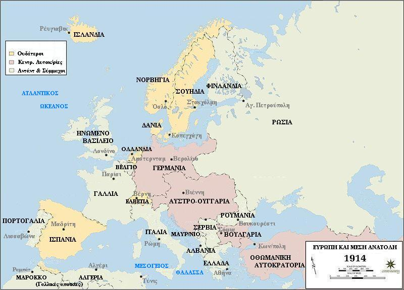 Europe in 1914